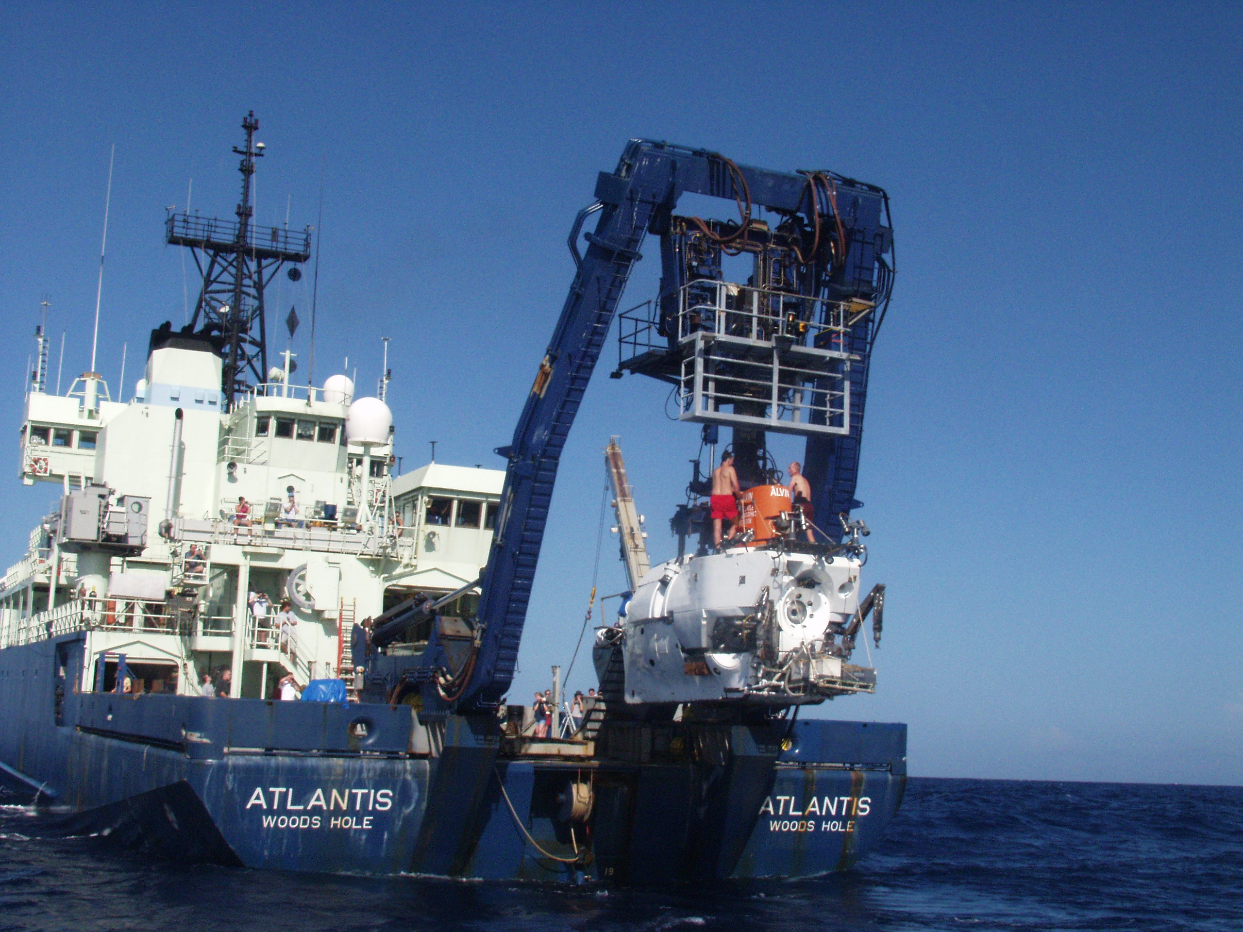 Mountains in the Sea Expedition 2004. DSV Alvin is launched from the R/V Atlantis for the first dive to Manning seamount. New England Seamount Chain.